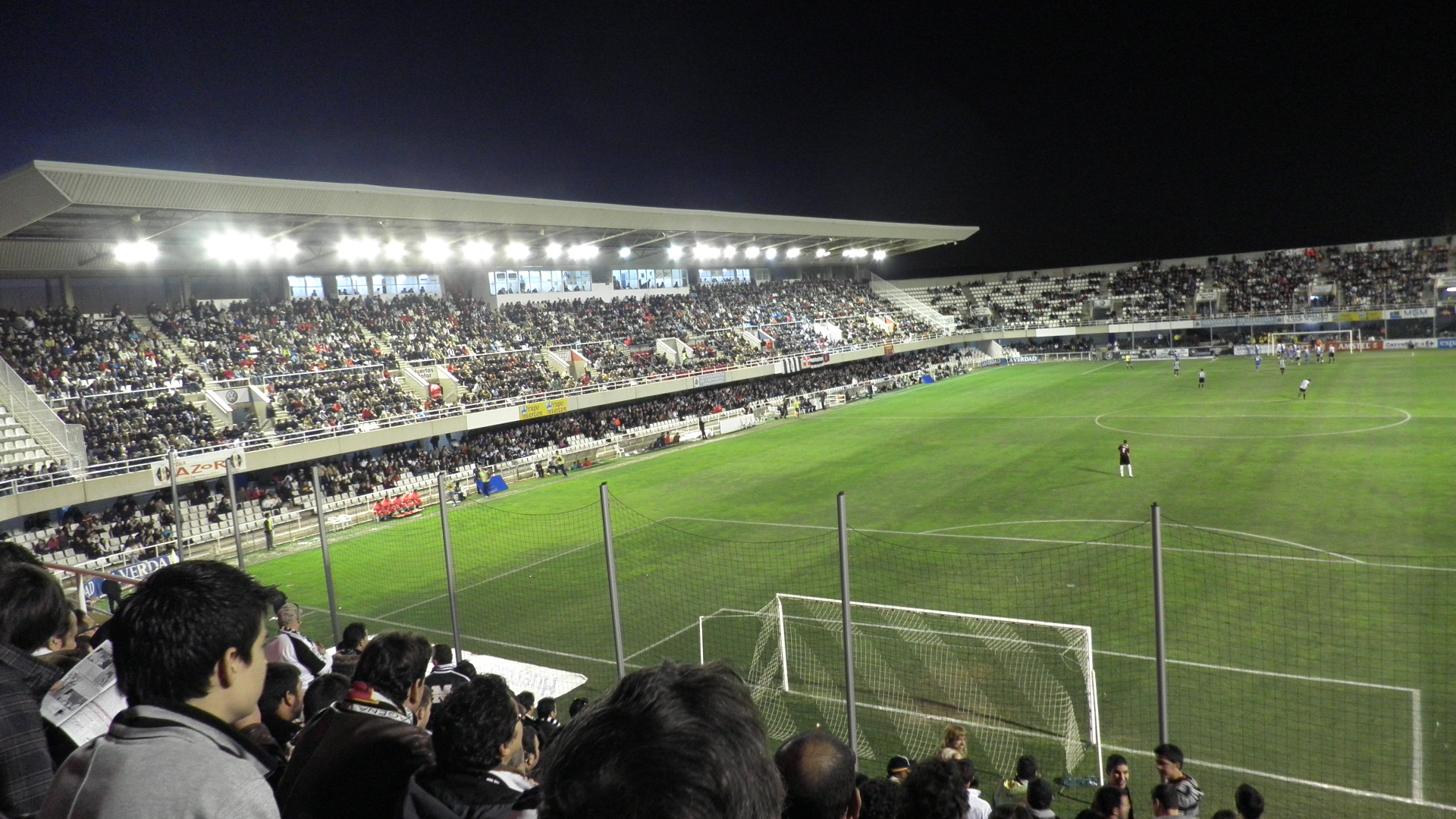 Cartagonova Estaium